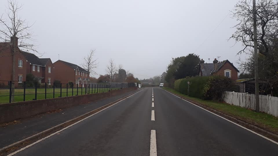 My own